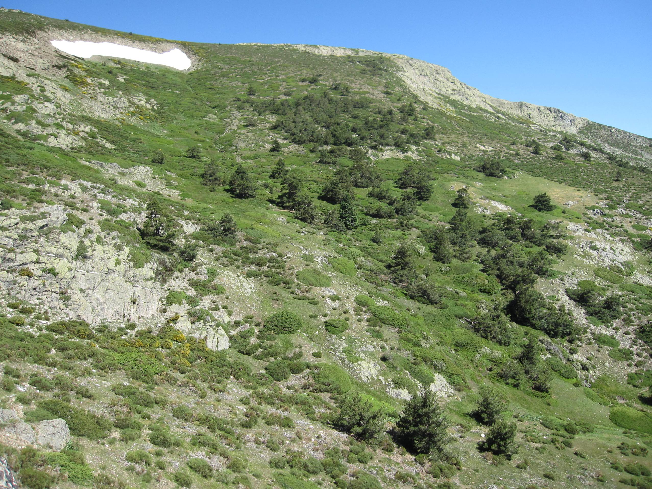 A small glaciar circus close to El Nevero peak (Guadarrama mountain range, central Spain).